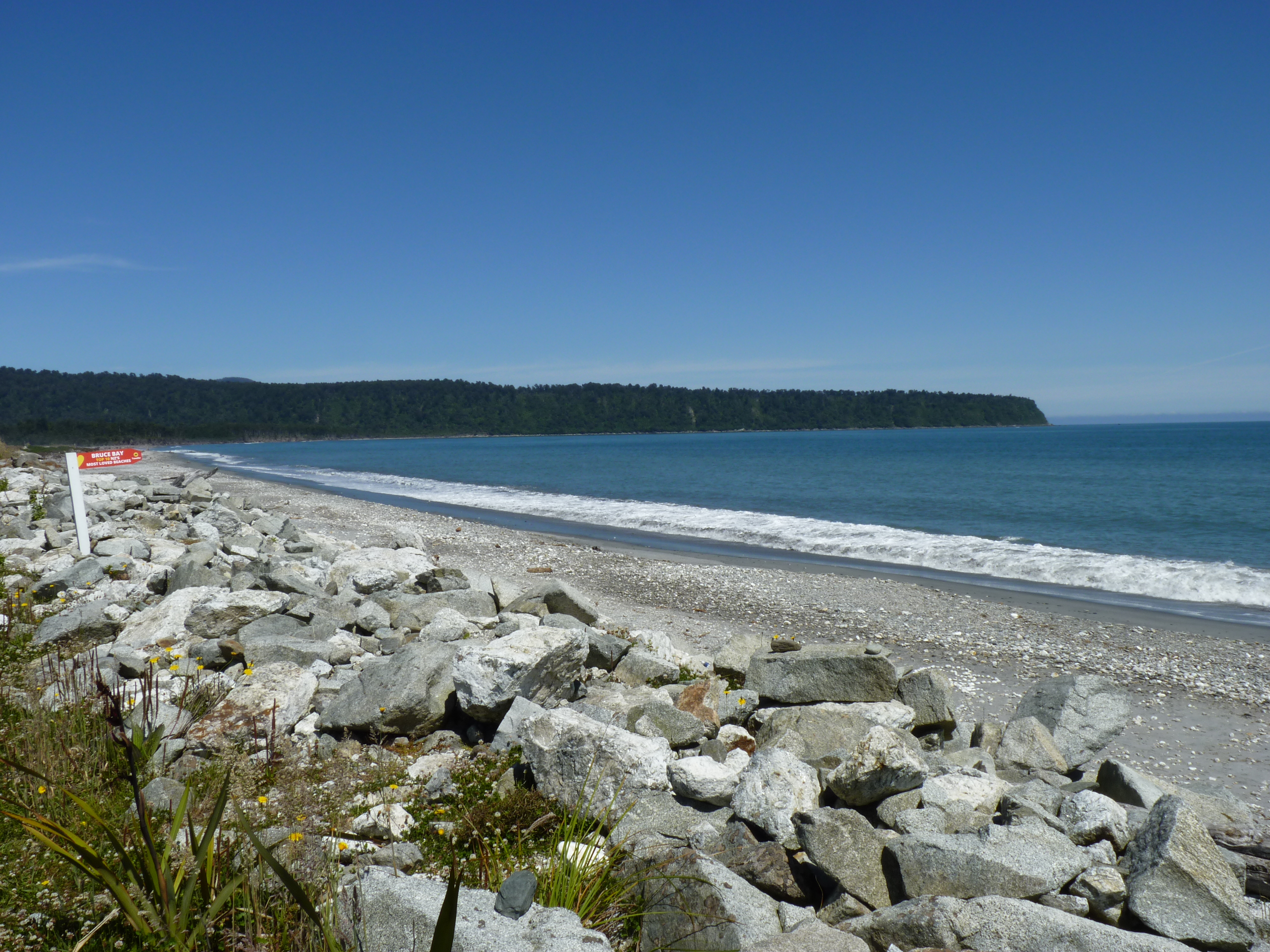 Bruce Bay, New Zealand